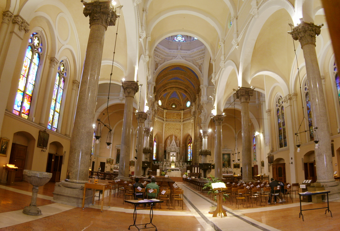 The interior of the church of Santa Maria delle Grazie in Naviglio in Milan, Italy